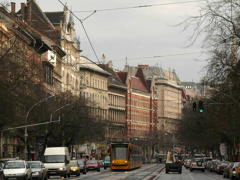 The Erzsébet Boulevard in Budapest